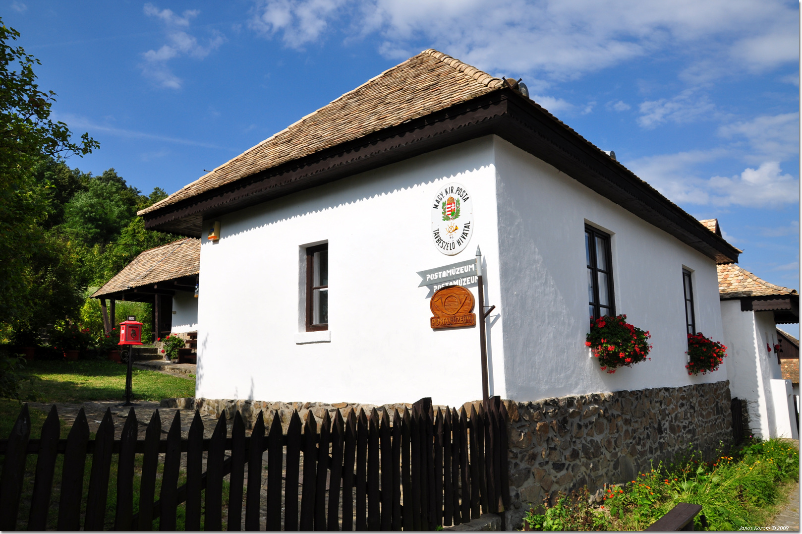 An old, functioning post office preserved in the Open air museum of Hollókő